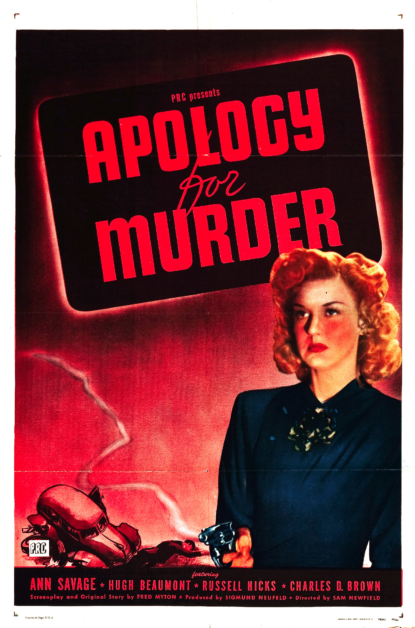 Poster for the 1945 film Apology for Murder. The item has no copyright marks on it as can be seen at links and original upload. At bottom left is Country of origin USA. At bottom right is Morgan Litho Corp., Cleveland, O.-they printed the poster-and 28747 45/181.